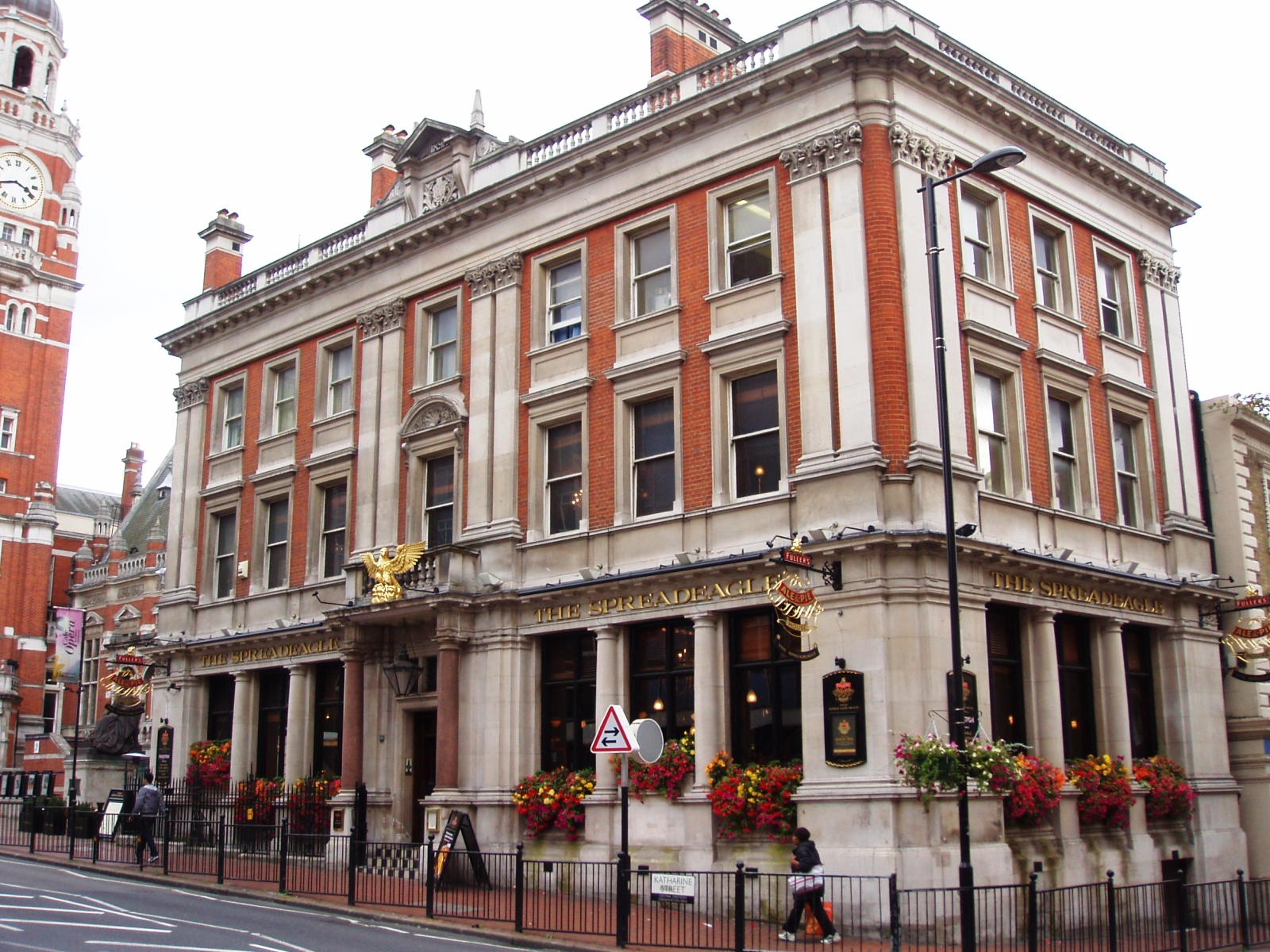 A Fuller's pub in central Croydon. It's perfectly nice, really. (Photo of Spreadeagle pie.) Address: 39-41 Katharine Street (or High Street). Owner: Fuller Smith Turner (website). Links: Randomness Guide to London Fancyapint Pubs Galore Beer in the Evening